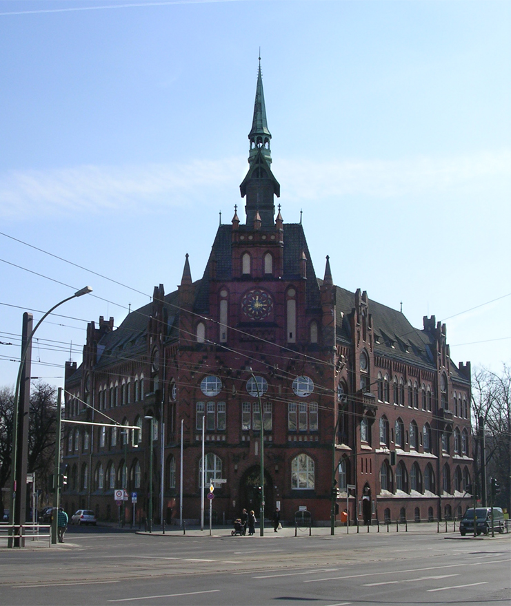 Town Hall in Berlin-Lichtenberg in 1909